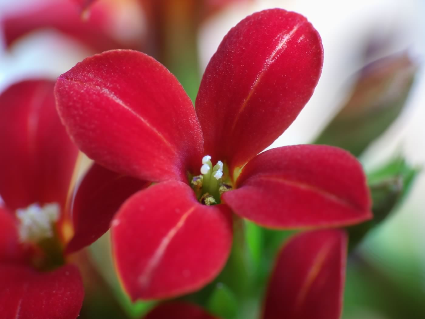 Kalanchoe blossfeldiana flower